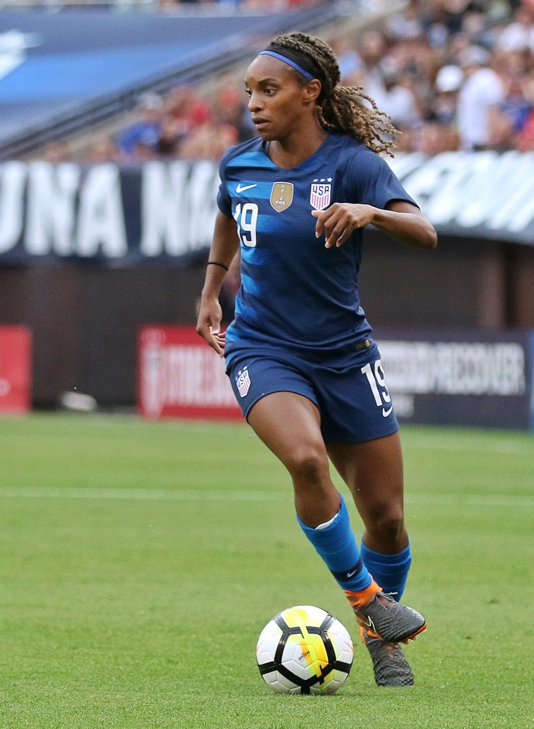 Crystal Dunn in a friendly against China on June 12, 2018, in FirstEnergy Stadium in Cleveland, OH.